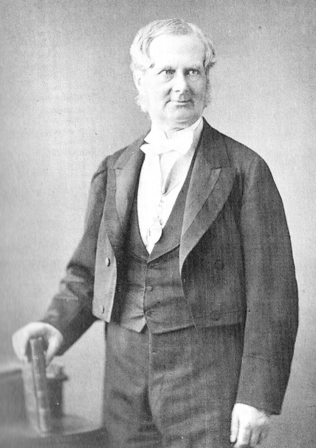 Sir Bernard Burke who served as Ulster King of Arms from 1853-1892. This image was taken from Dublin University Magazine in 1876.